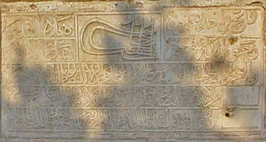 Foundation inscription of the Heptapyrgion fortress, an Ottoman reconstruction of a Byzantine fort on the Thessaloniki acropolis (1431). Photograph taken by Marsyas